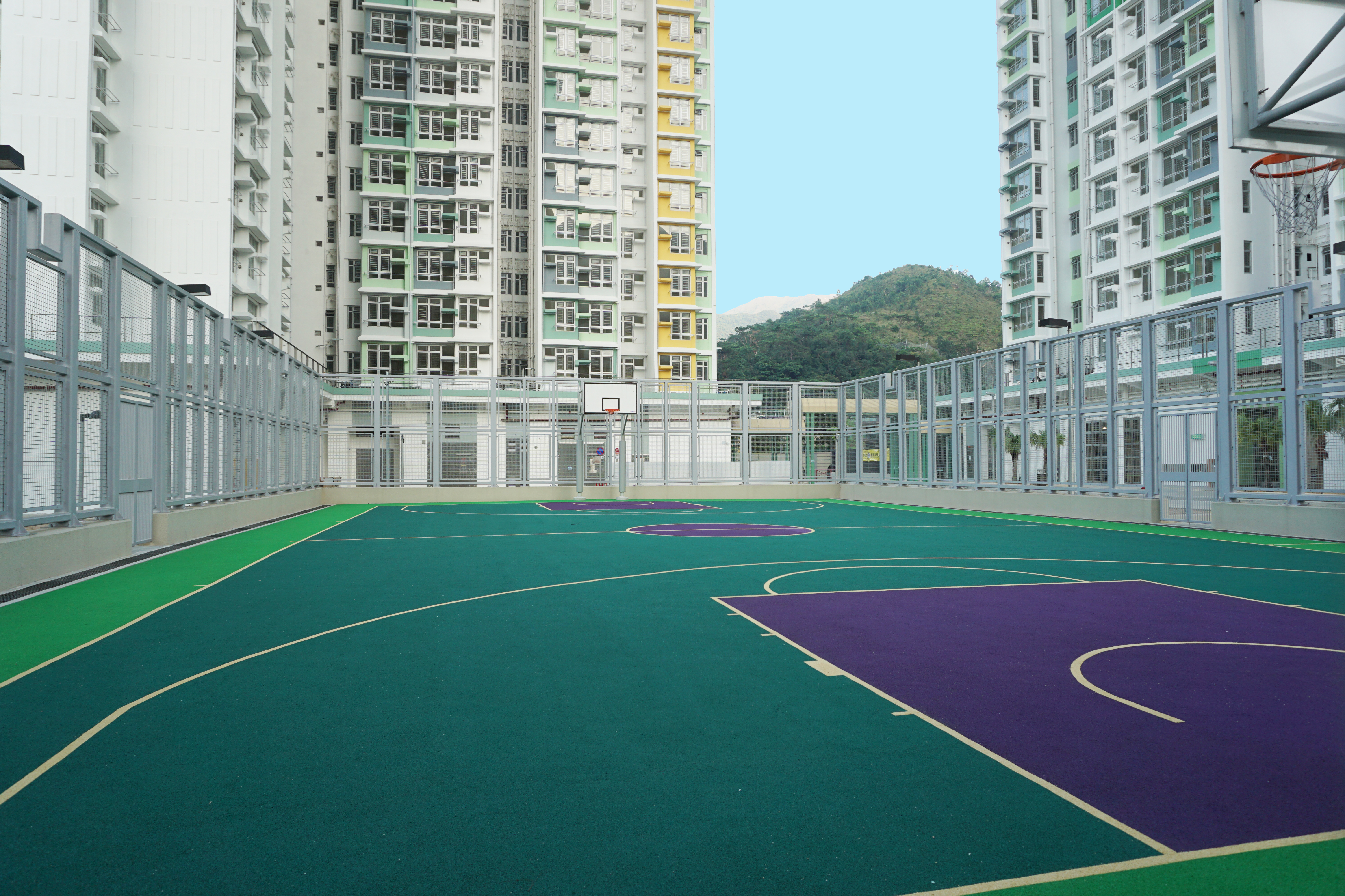 Mun Tung Estate in Tung Chung, Hong Kong.